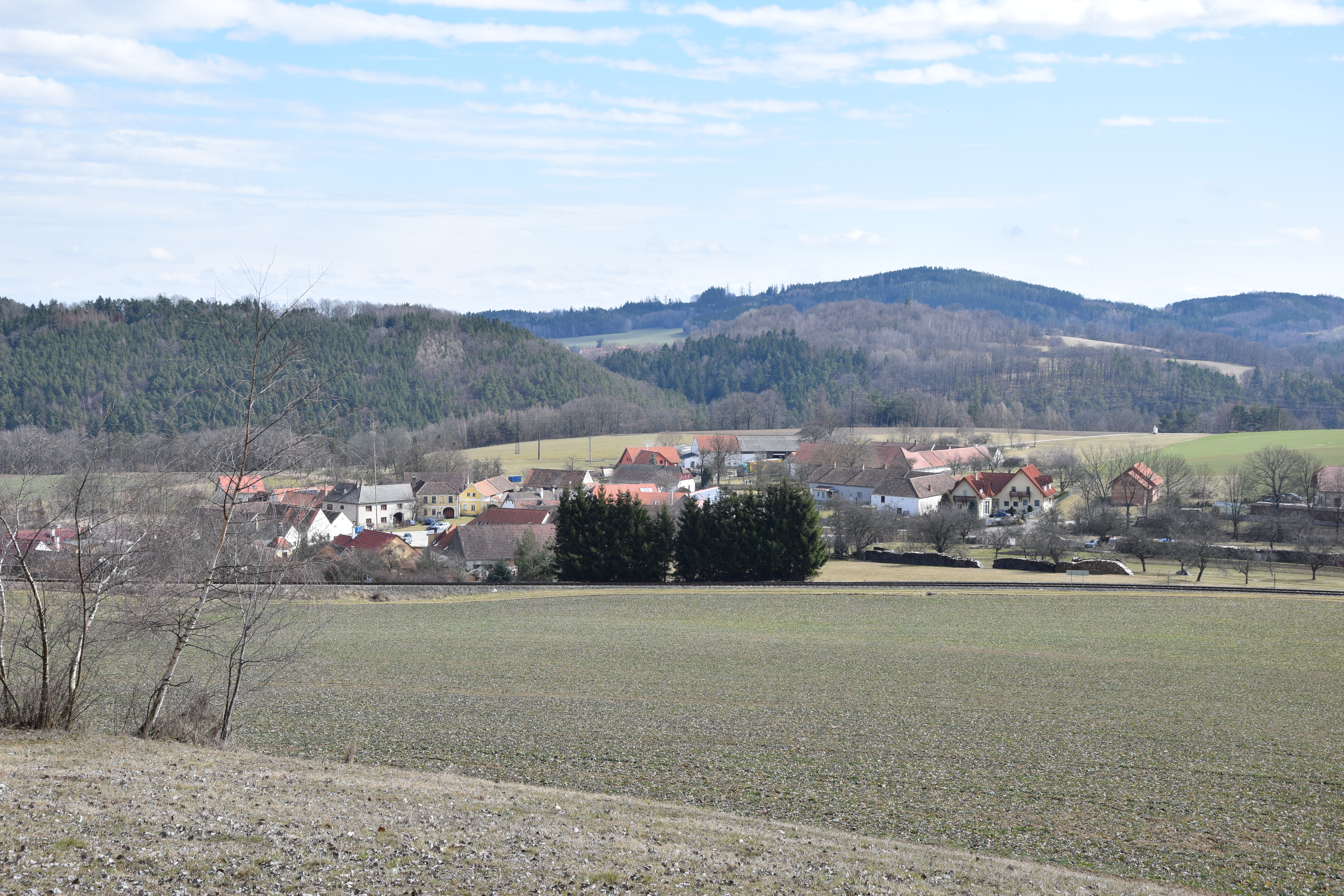 View of Plešovice, the Czech Republic, from the west. The highest hill in the background is Věncová hora (651 m).